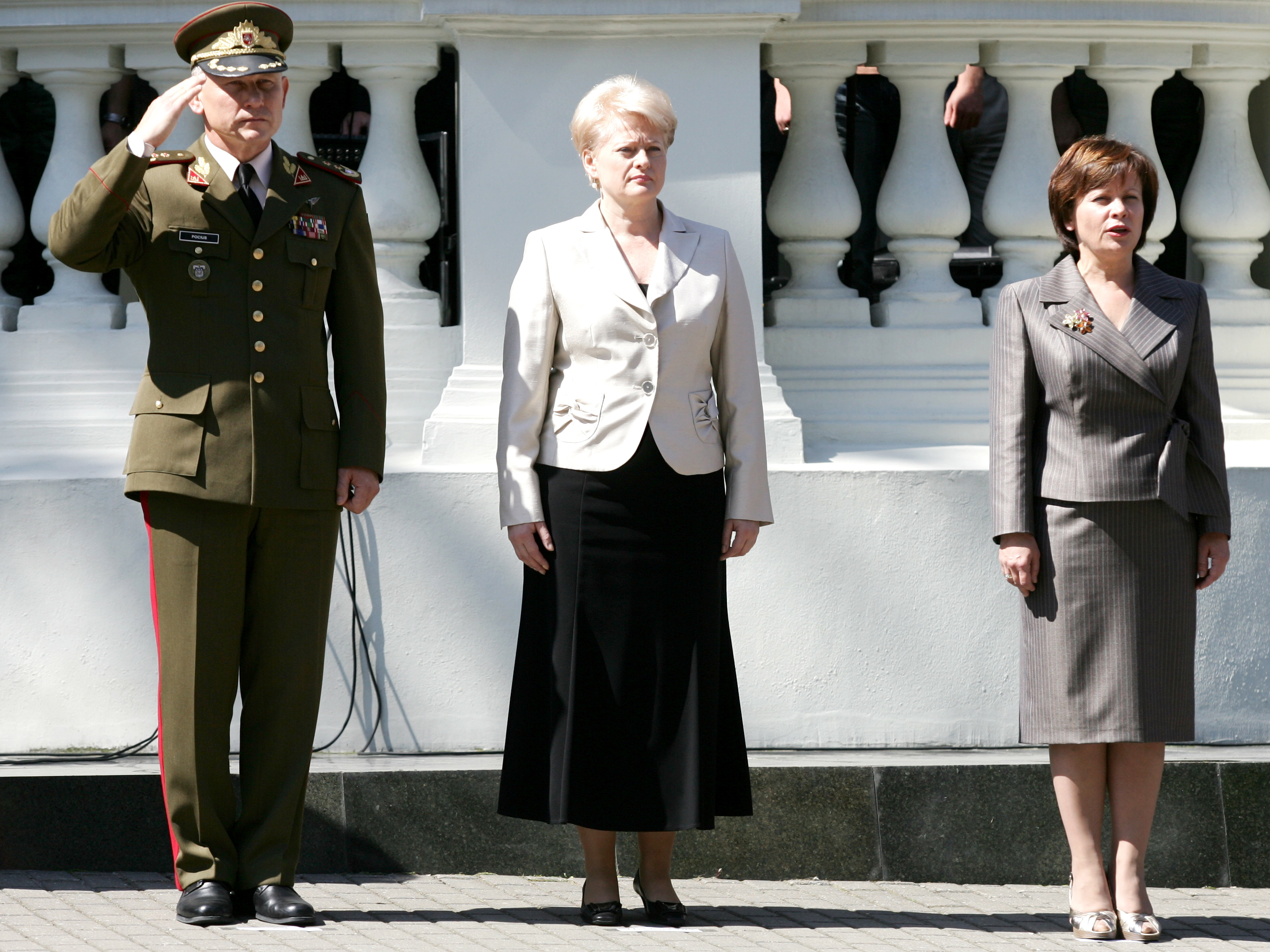 Lithuanian army commander Arvydas Pocius Presidential Inauguration 2009-07-28. To right: Arvydas Pocius, Dalia Grybauskaitė, Rasa Juknevičienė